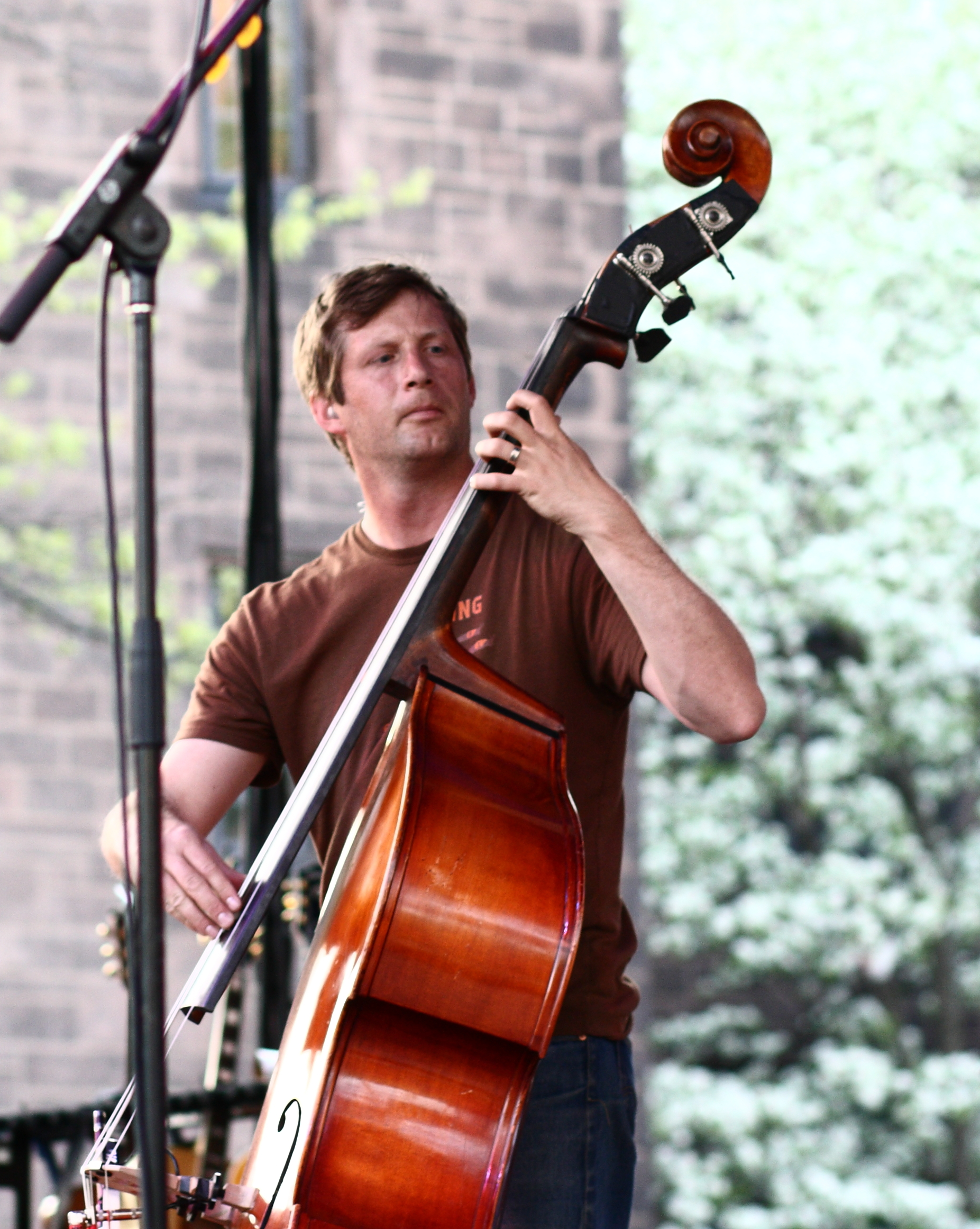 The Decmeberists performing at the Yale University "Spring Fling" on 28 April 2009, on Yale's Old Campus. Part of a larger set on Flickr: The Decemberists, 28 April 2009